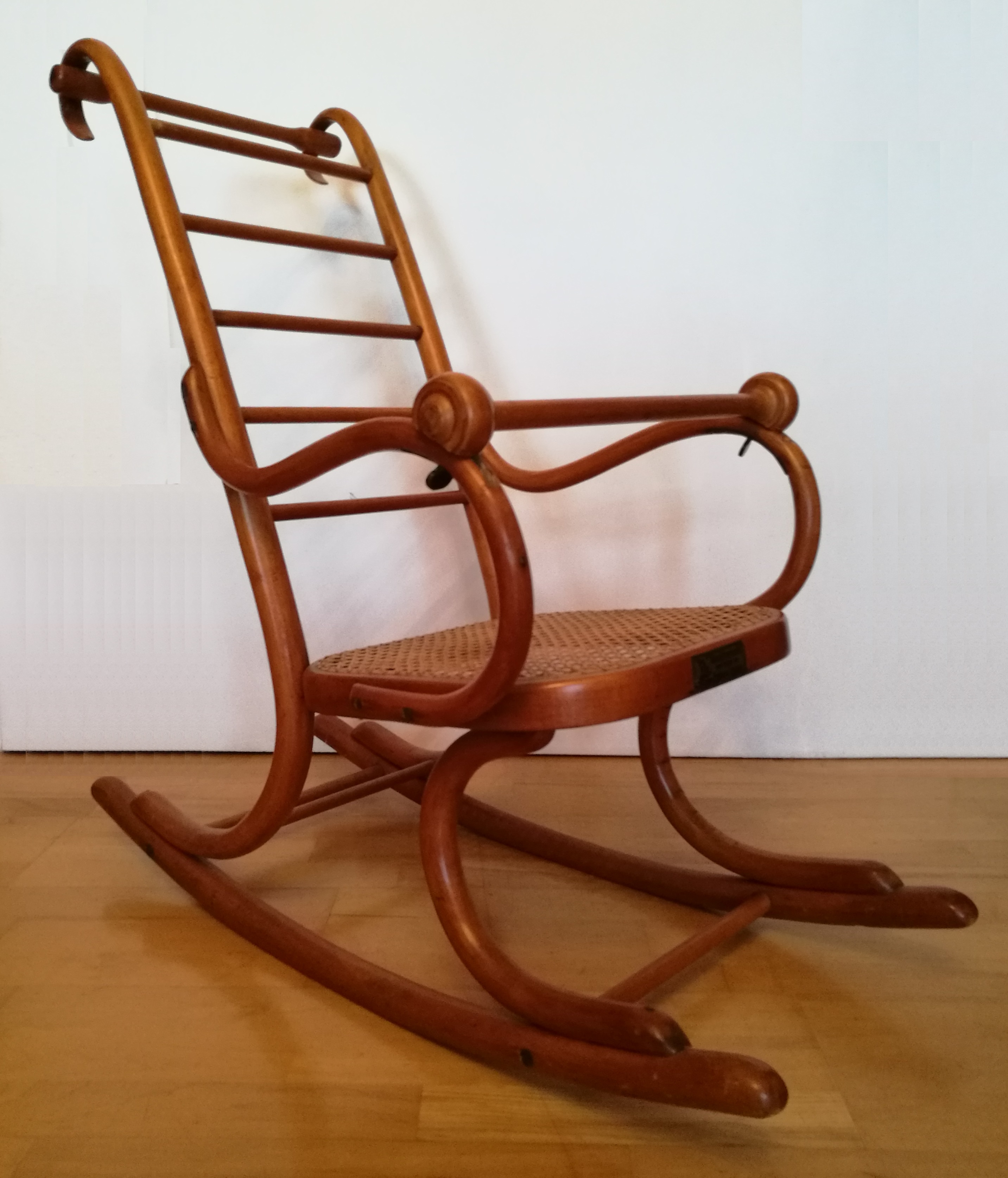 Rocking chair for Toddlers, Size 2, Thonet, designed by Prof. Alois Epstein